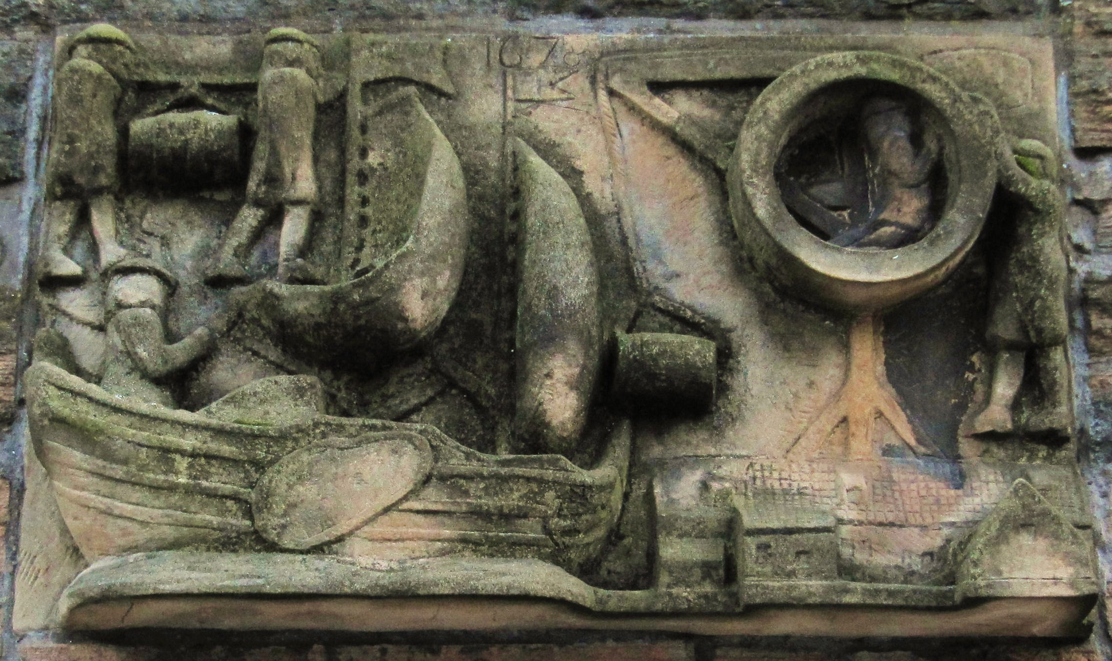 Porters Stone, Wall of Vaults, Henderson Street, Leith, Edinburgh